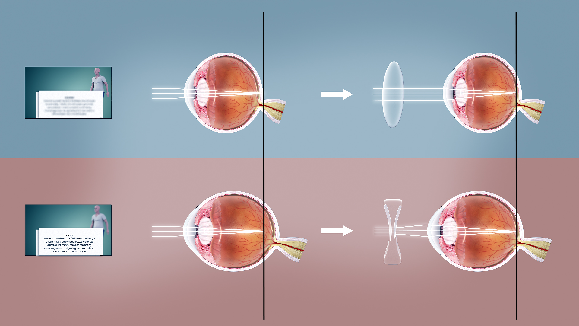 (L to R): Types of Refractive Errors and its correction - Hyperopia vision or farsightedness and Myopia vision or nearsightedness.